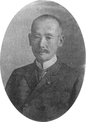 Kaneko Sentarō, former director of the Sixth Higher School.